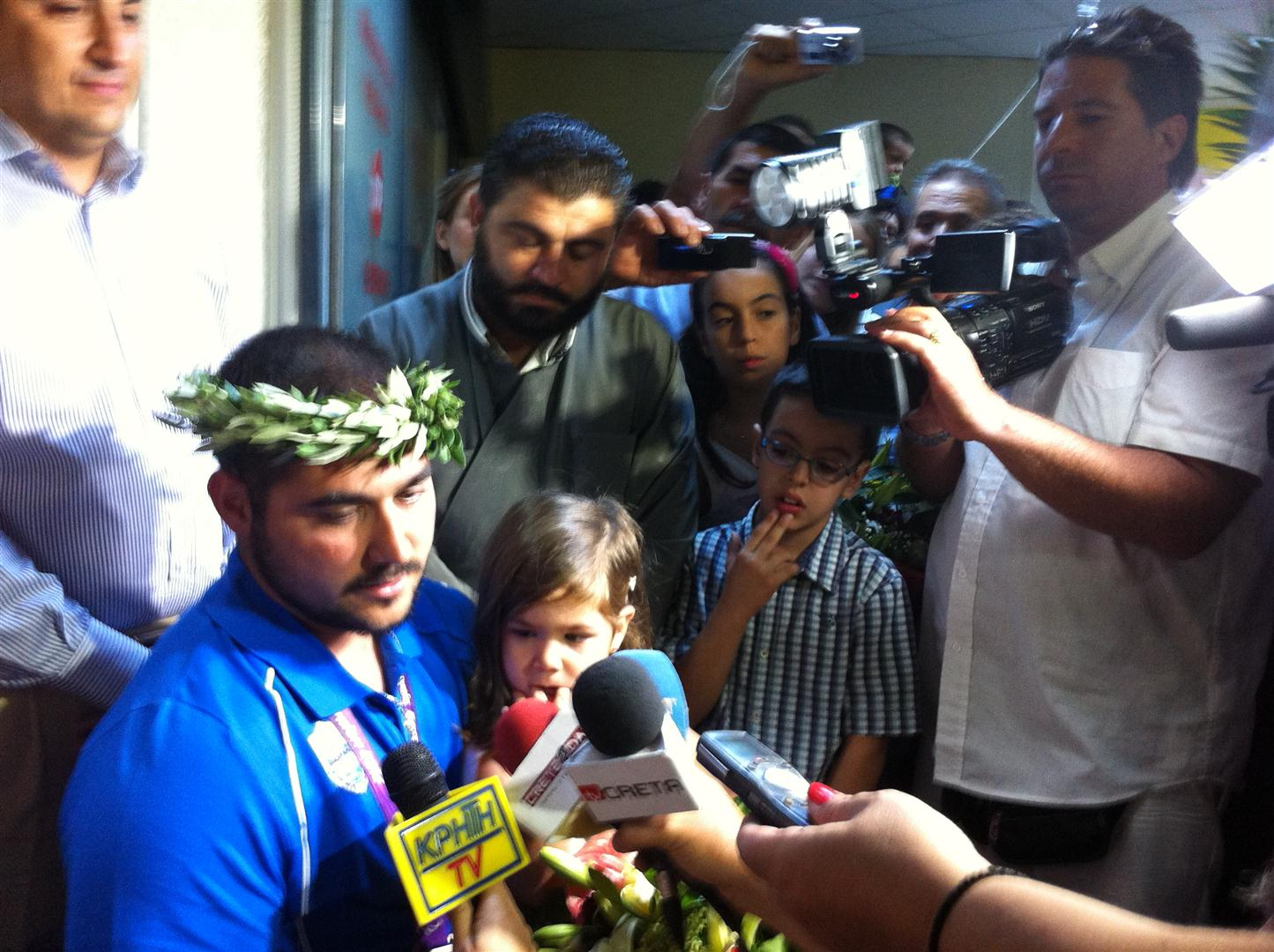 Υποδοχή Παραολυμπιονίκη στην Κρήτη